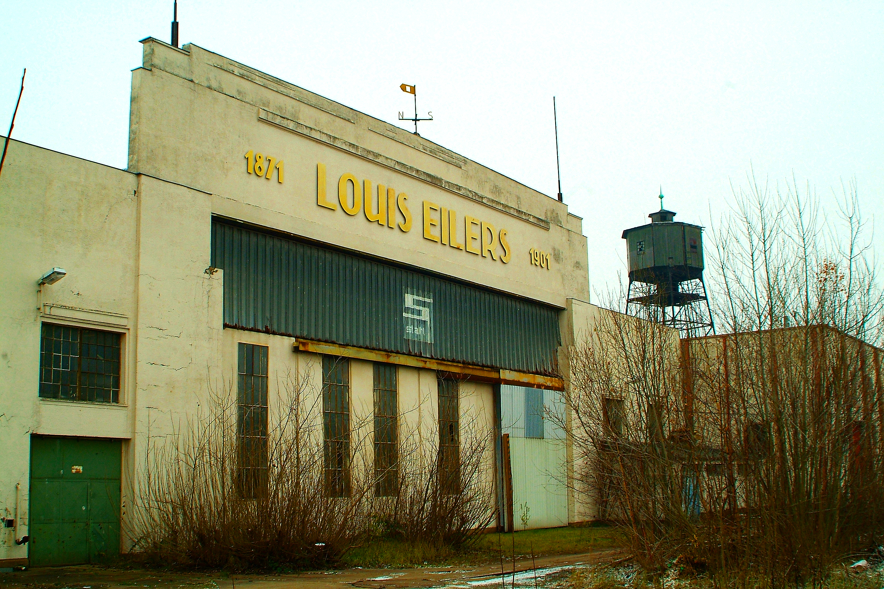 Thanks to all my friends and helpers, especially to the "Hausmeister"